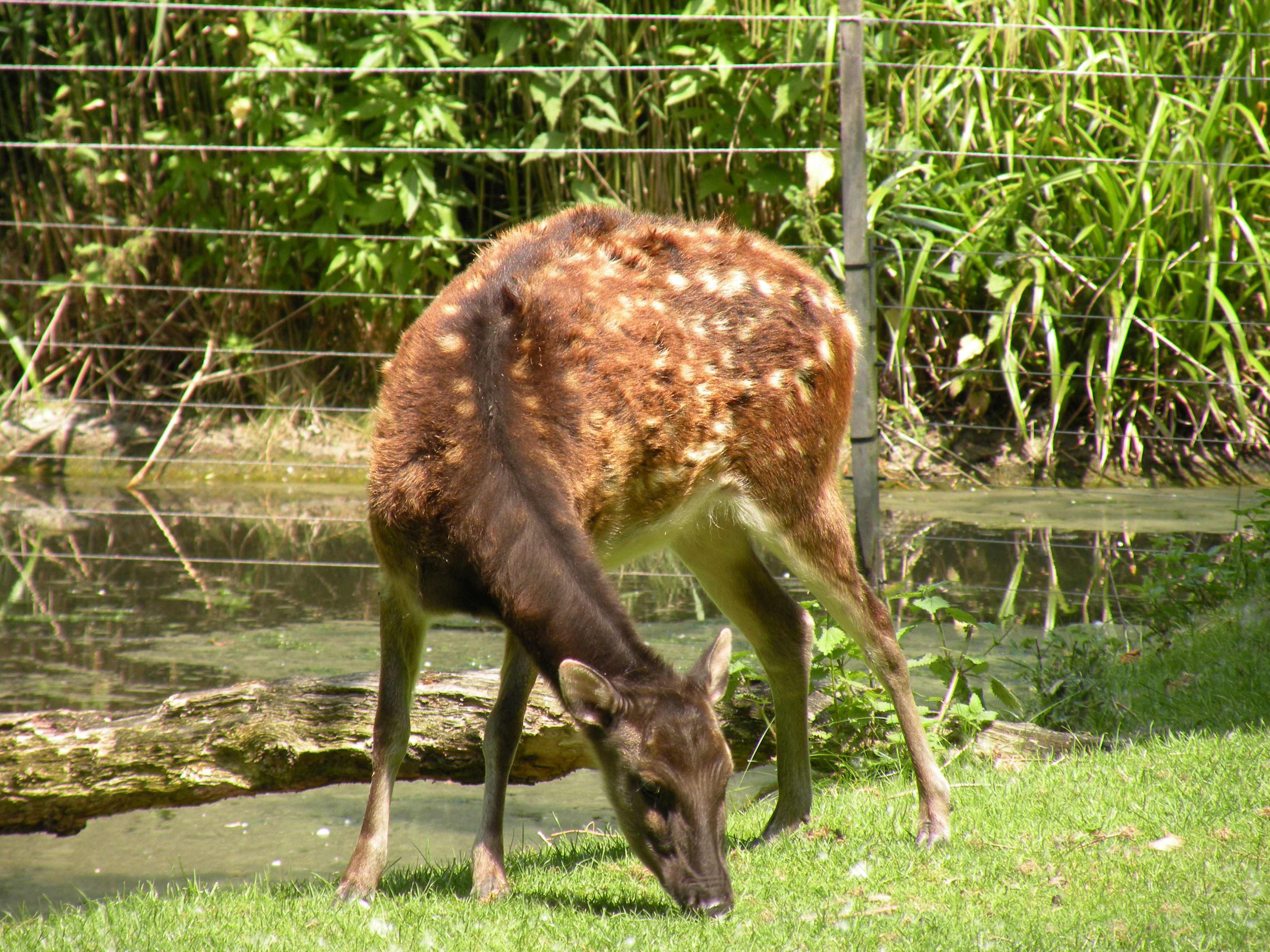 A female Visaya Spotted Deer cervus alfredi in Diergaarde Blijdorp in Rotterdam